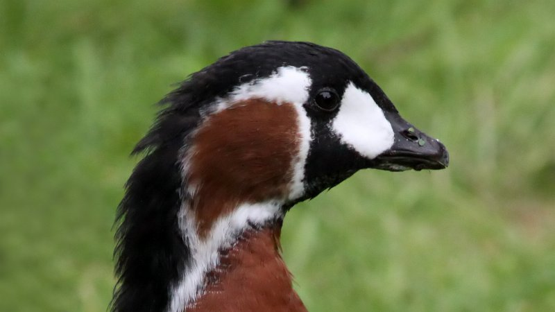 Red-Breasted Goose (Branta ruficollis)